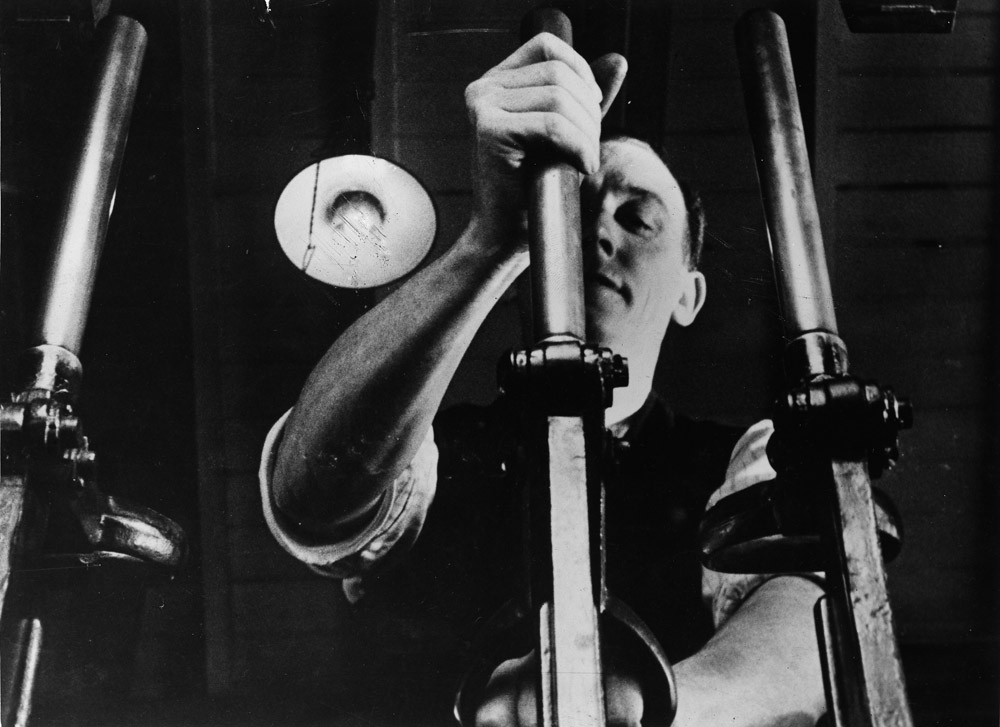 Image of signalman from the documentary film Night Mail by the GPO Film Unit